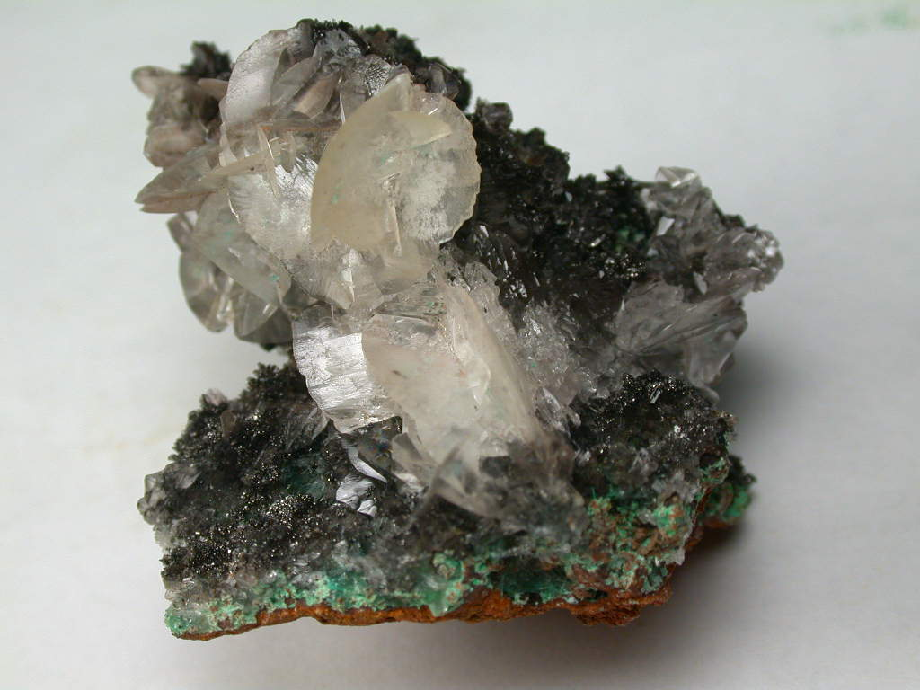 Murdochite, Calcite, Hemimorphite Locality: Ojuela Mine, Mapimí, Mun. de Mapimí, Durango, Mexico Original description: A 3.7 by 3.7 cms mass of larger Calcite and Hemimorphite crystals with lots of small black crystals of Murdochite. JSS specimen and photo.